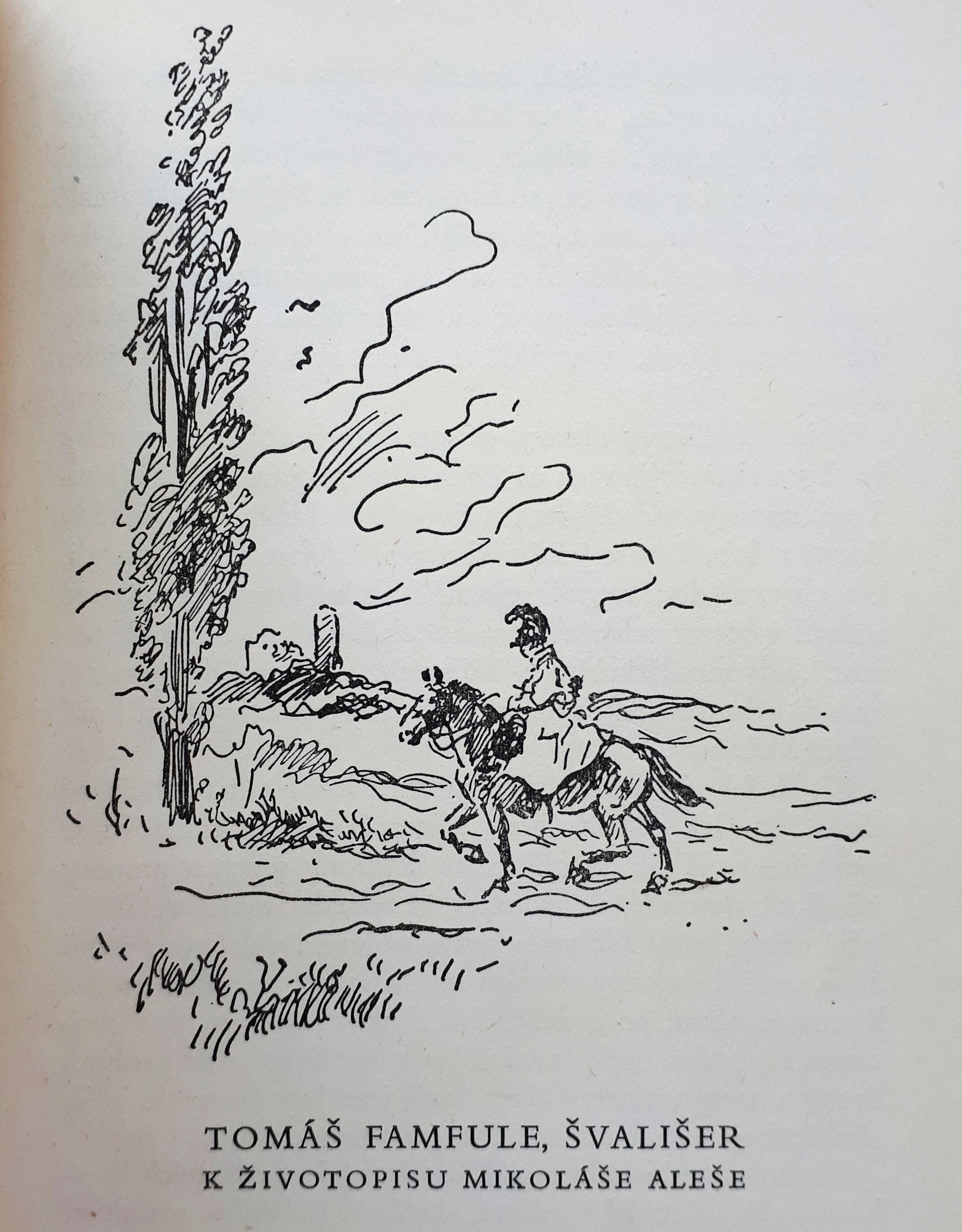 Mikoláš Aleš - an illustration to the novel "Tomáš Famfule, švališér" (In: JIRÁSEK, Alois. Vojenské povídky. Praha 1952).